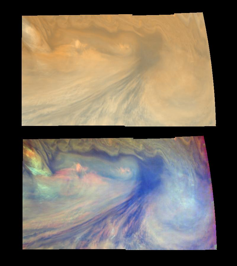 True and false color views of an equatorial "hotspot" on Jupiter. These images cover an area 34,000 kilometers by 11,000 kilometers. The top mosaic combines the violet (410 nanometers or nm) and near-infrared continuum (756 nm) filter images to create an image similar to how Jupiter would appear to human eyes. Differences in coloration are due to the composition and abundances of trace chemicals in Jupiter's atmosphere. The bottom mosaic uses Galileo's three near-infrared wavelengths (756 nm, 727 nm, and 889 nm displayed in red, green, and blue) to show variations in cloud height and thickness. Bluish clouds are high and thin, reddish clouds are low, and white clouds are high and thick. The dark blue hotspot in the center is a hole in the deep cloud with an overlying thin haze. The light blue region to the left is covered by a very high haze layer. The multicolored region to the right has overlapping cloud layers of different heights. Galileo is the first spacecraft to distinguish cloud layers on Jupiter. North is at the top. The mosaics cover latitudes 1 to 10 degrees and are centered at longitude 336 degrees West. The planetary limb runs along the right edge of the image. Cloud patterns appear foreshortened as they approach the limb. The smallest resolved features are tens of kilometers in size. These images were taken on December 17, 1996, at a range of 1.5 million kilometers by the Solid State Imaging system aboard NASA's Galileo spacecraft.